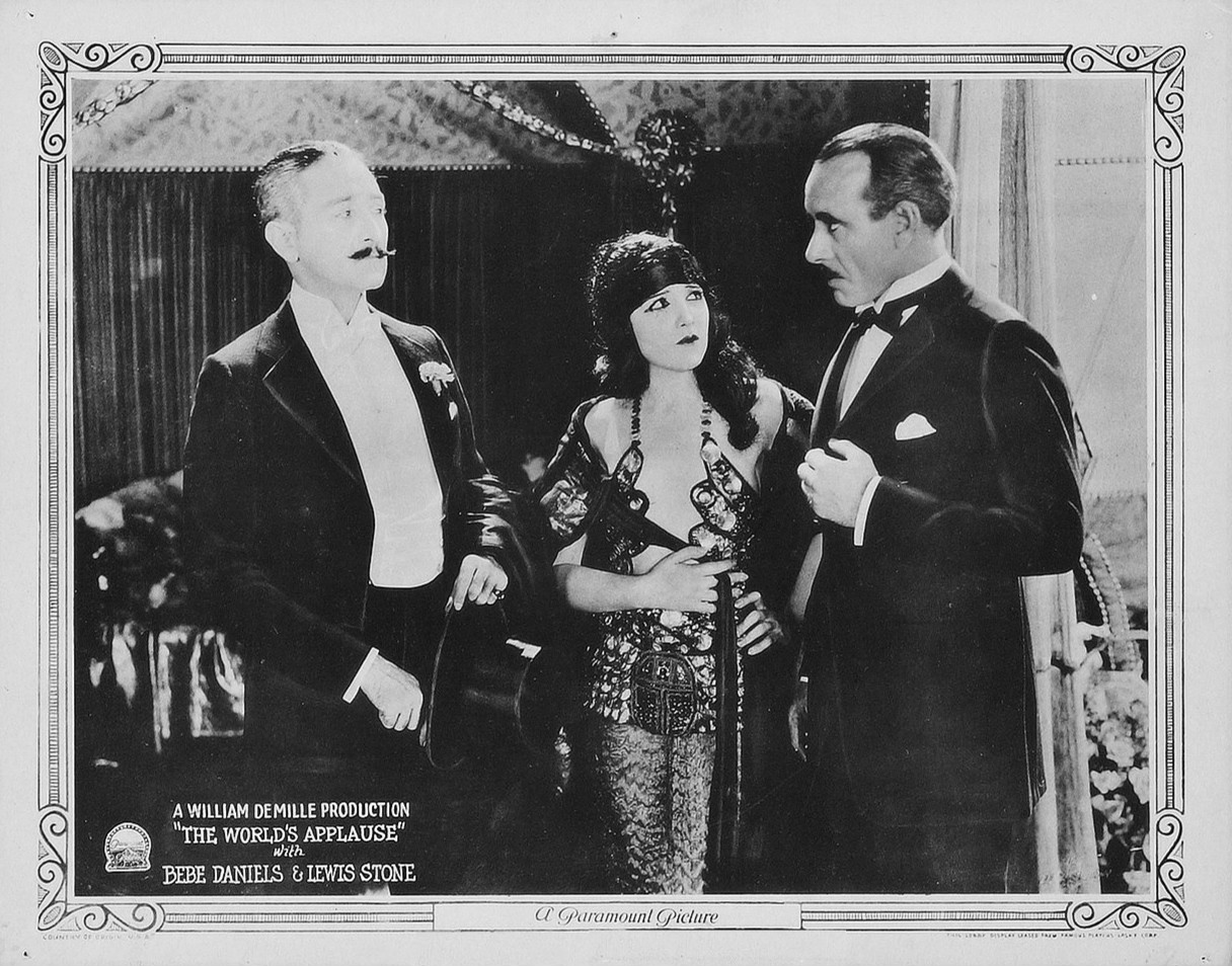 Lobby card for the American drama film The World's Applause (1923).